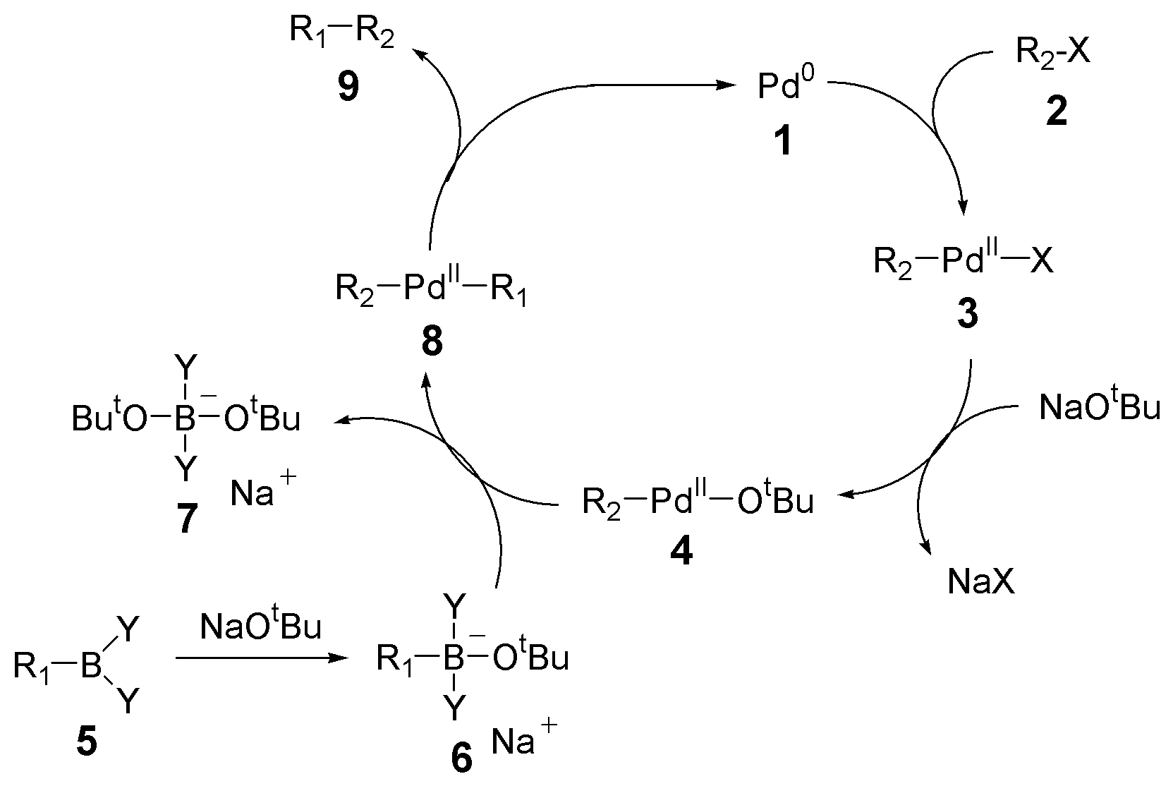 Description: Reaction mechanism of the Suzuki reaction. Author, date of creation: selfmade by ~K, 01 January 2006. Source: - Copyright: Public domain. (PD) Comments: high-resolution b/w PNG; ChemDraw / The GIMP.